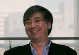 Profile picture of Cui Zhiyuan